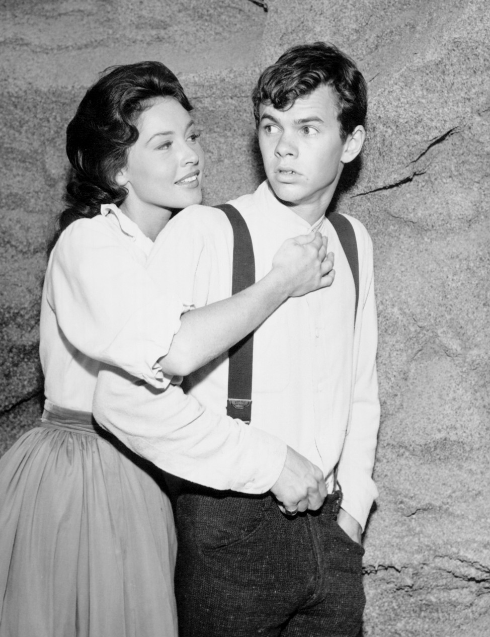 Photo of Peter Helm and Maggie Pierce from the Wagon Train episode "The Daniel Clay Story.